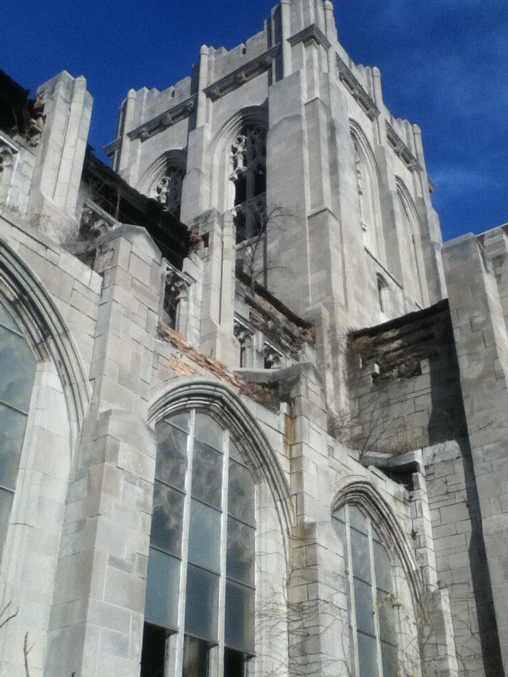 Gary City Methodist Church